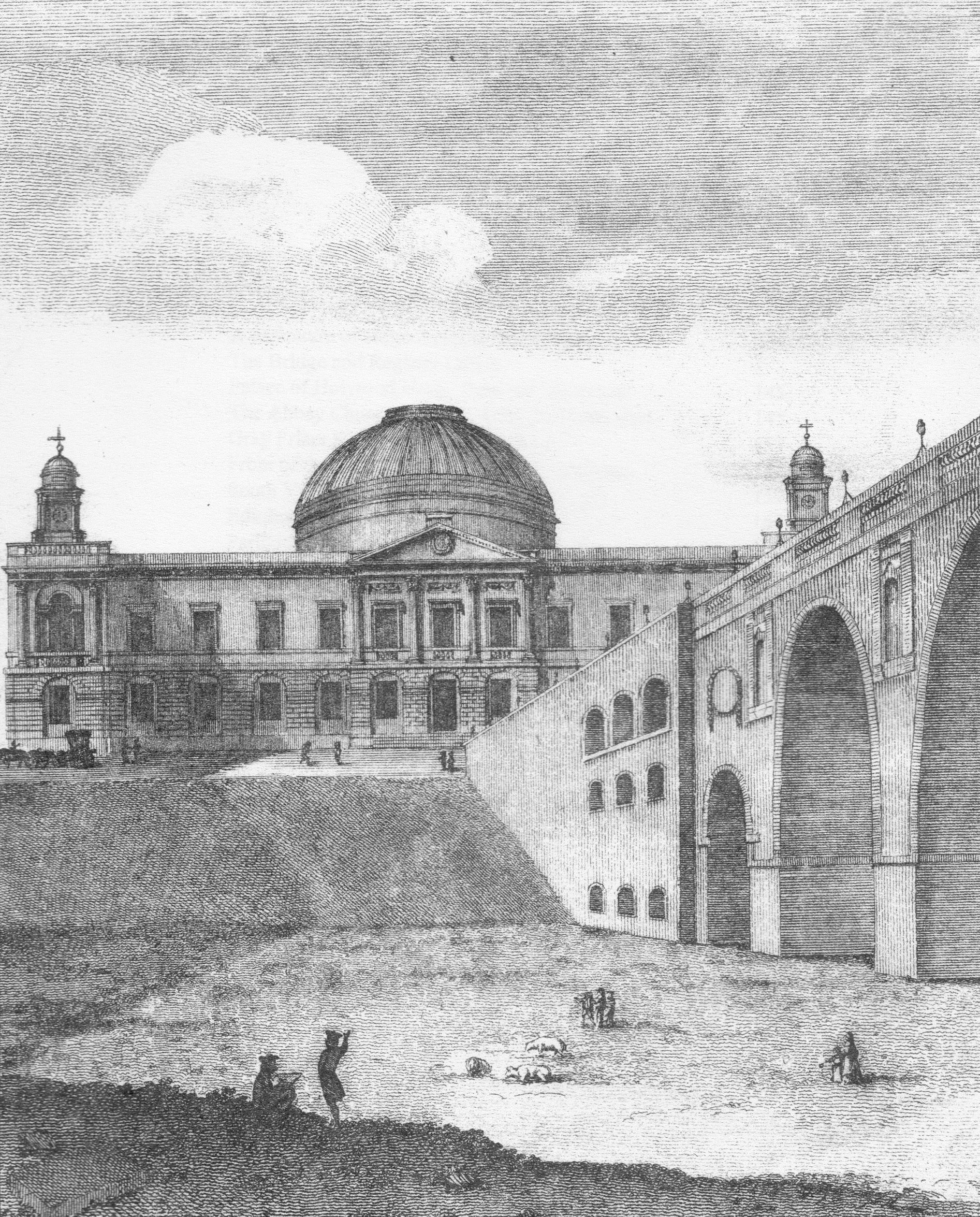 A Perspective View of the Bridge and Register-Office Edinburgh, c.1800